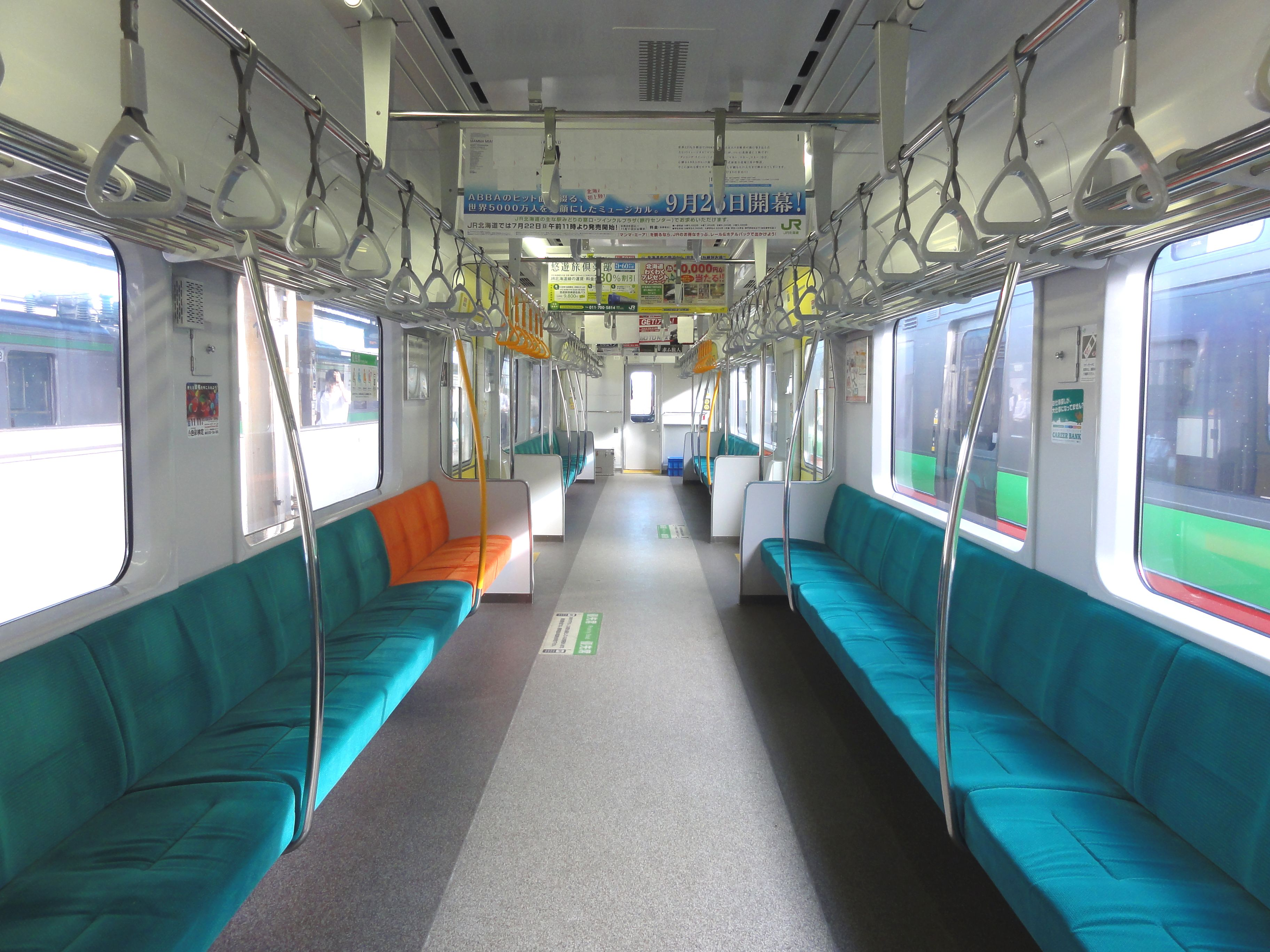 Interior of a JR Hokkaido 733 series EMU end car